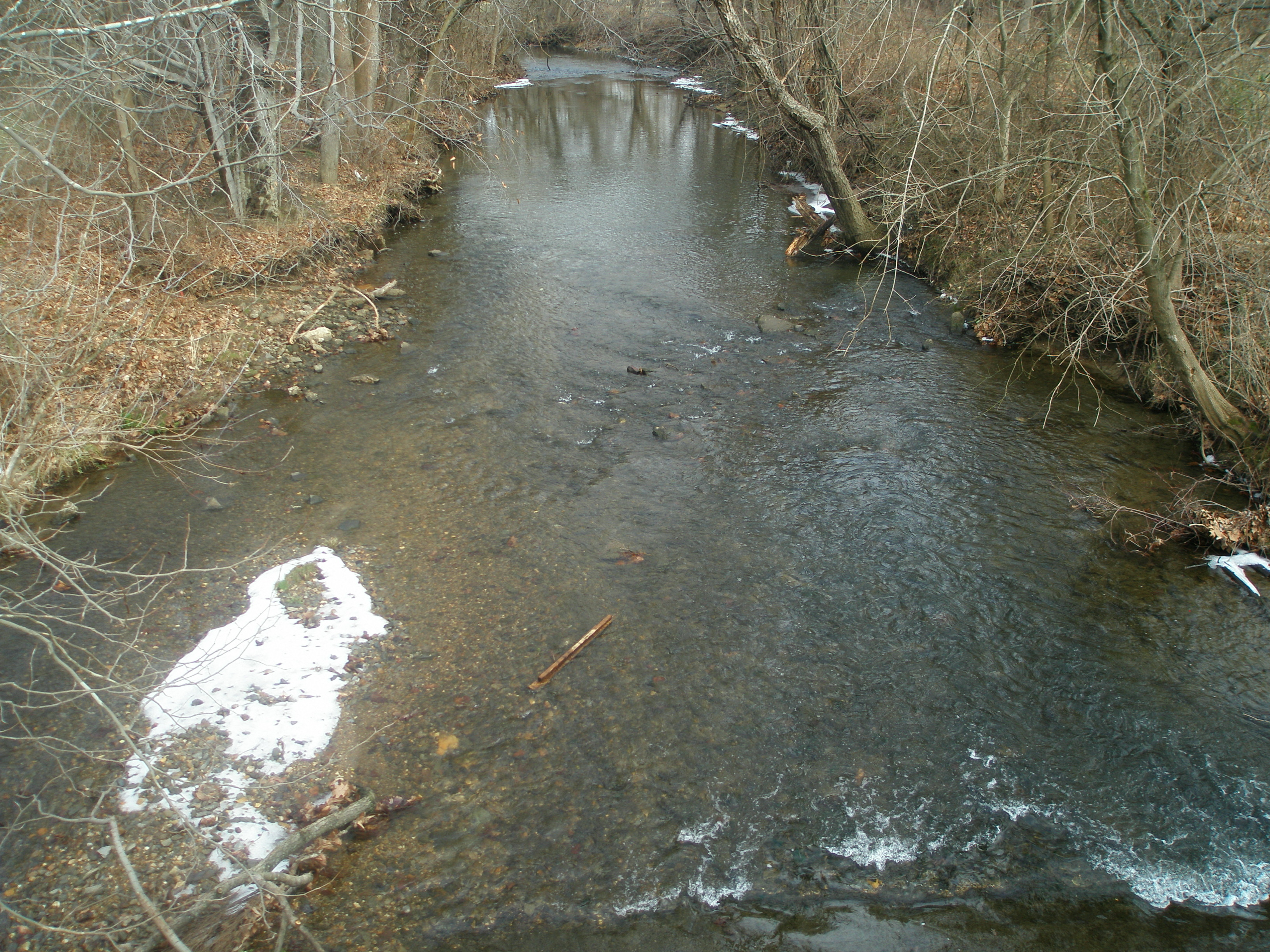 Darby Creek where it crosses Route 320 in Marple Township, Pennsylvania